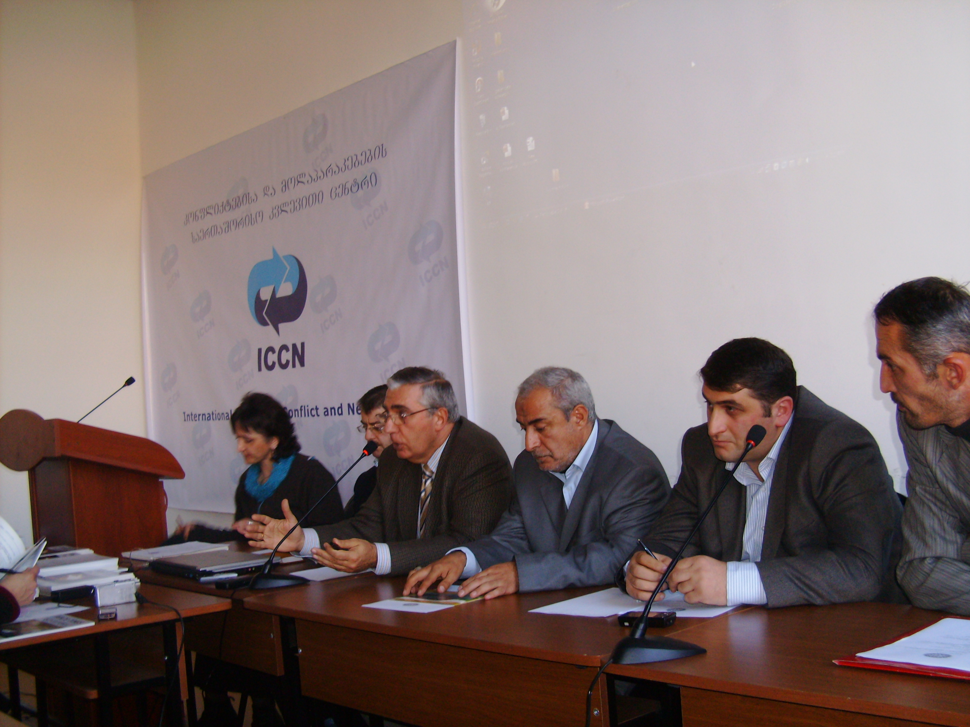 Георгий Хуцишвили